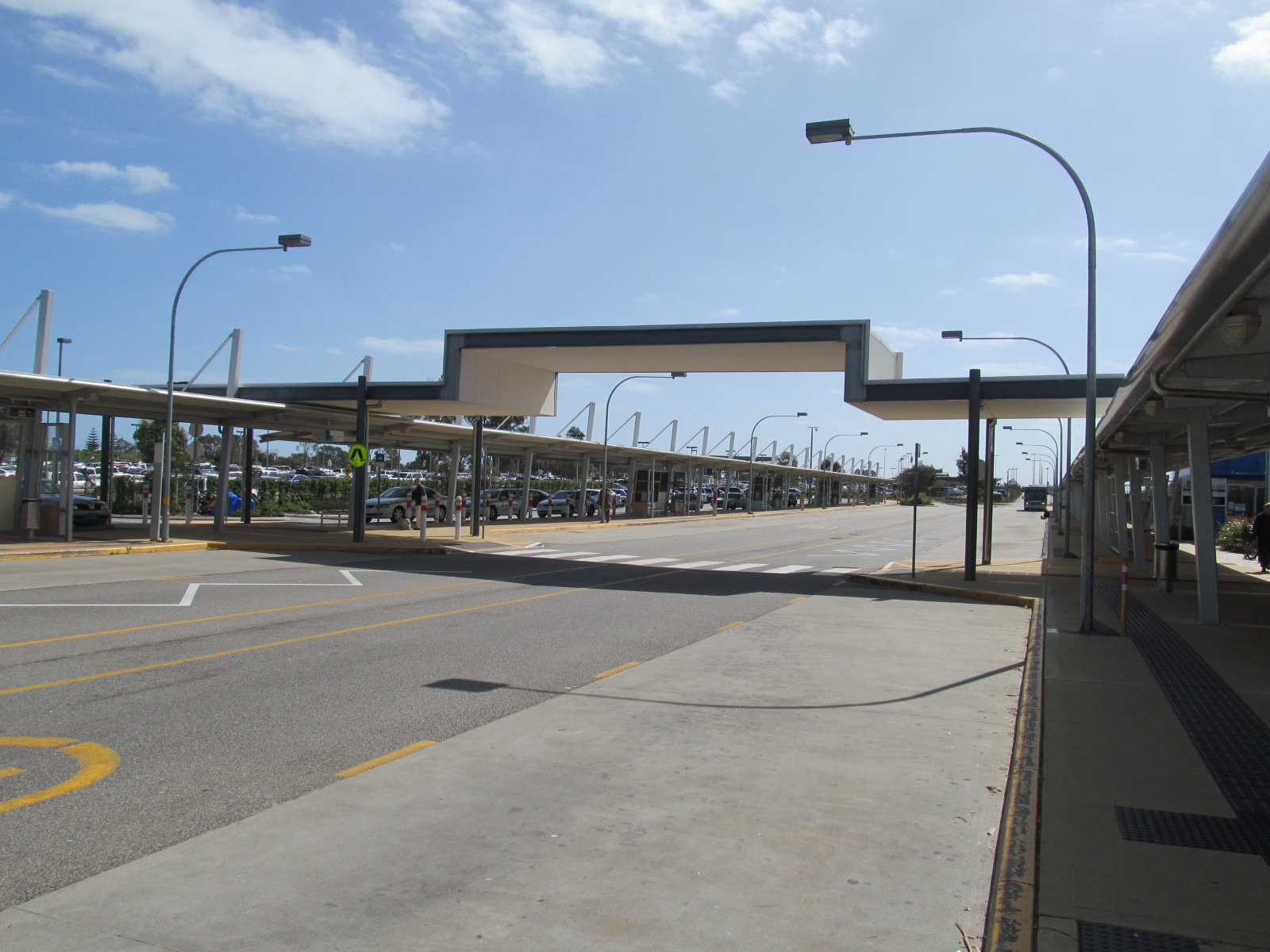 Bus interchange at Mandurah railway station, Western Australia